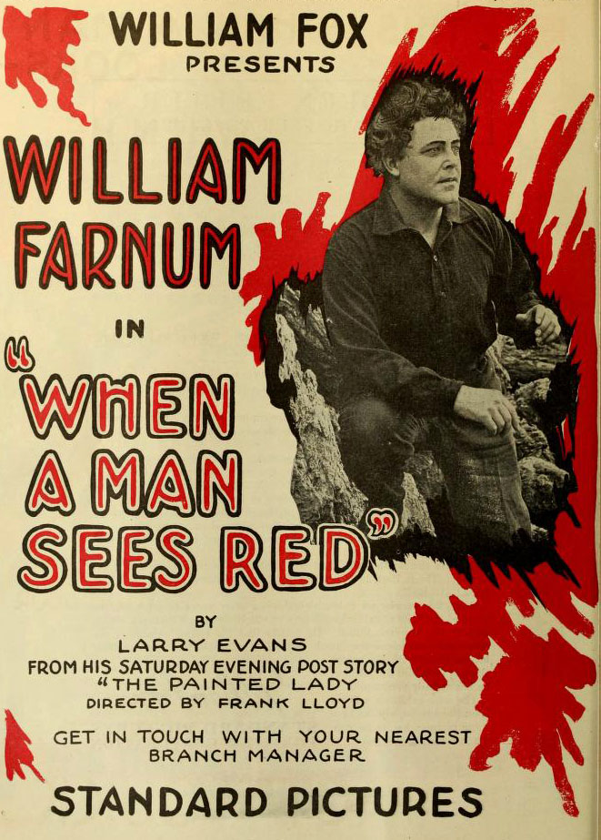 Advertisement in Moving Picture World, Sept 1917 for the American drama film When a Man Sees Red (1917) with William Farnum.